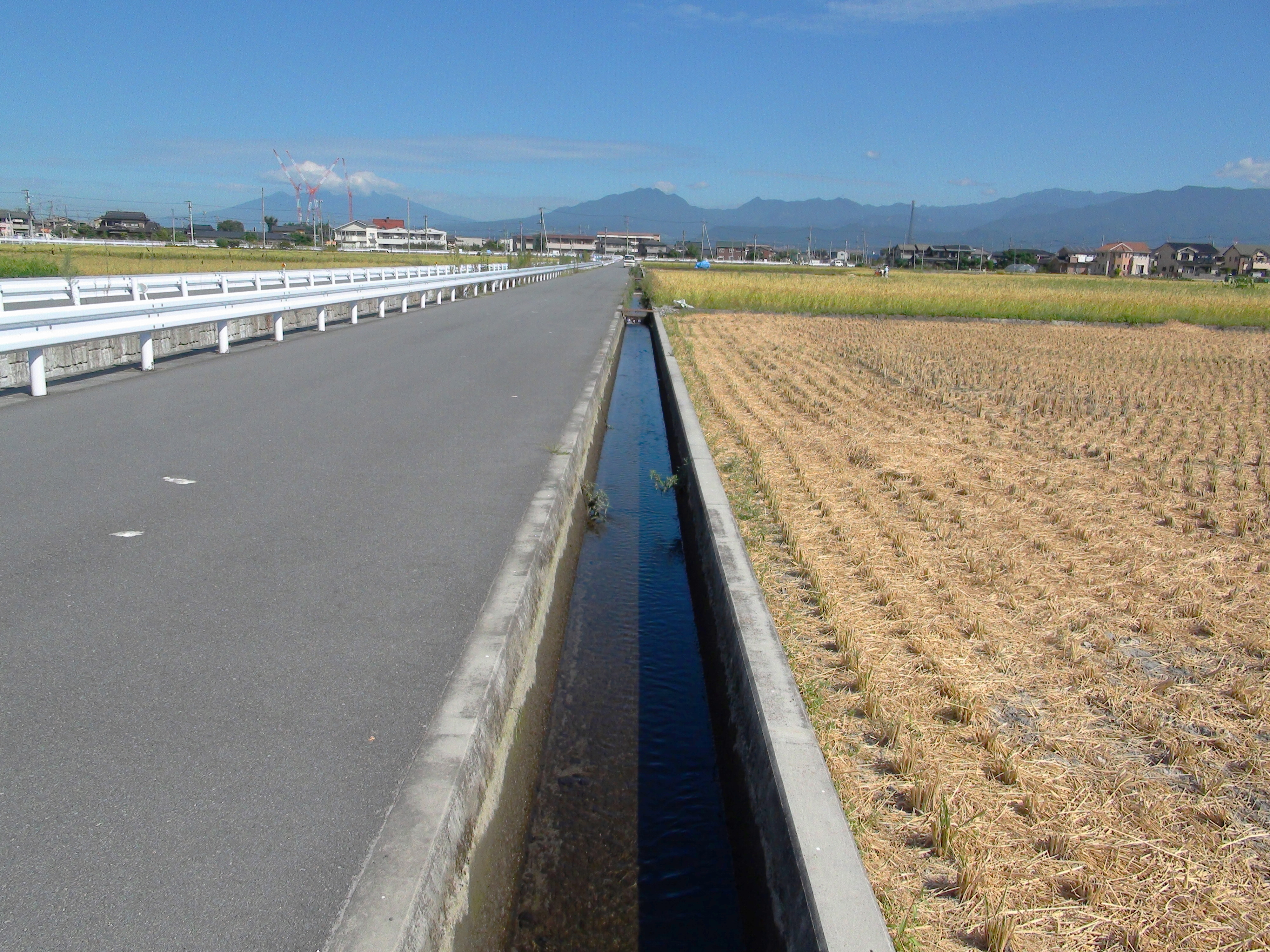 The waterway which became the concrete for an anti Schistosoma japonicum measure